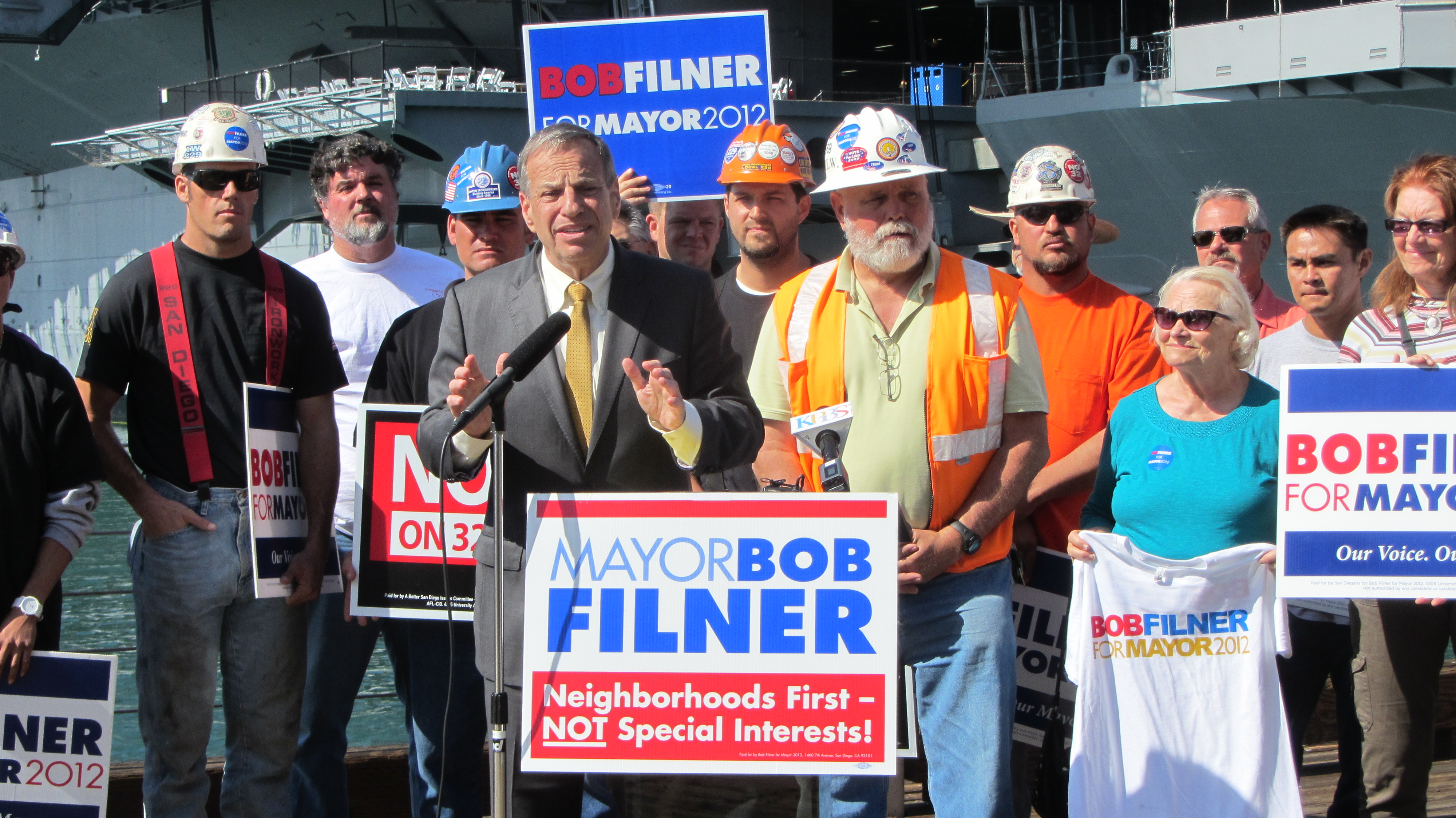 Bob Filner Speaks to press about his endorsement from San Diego veterans